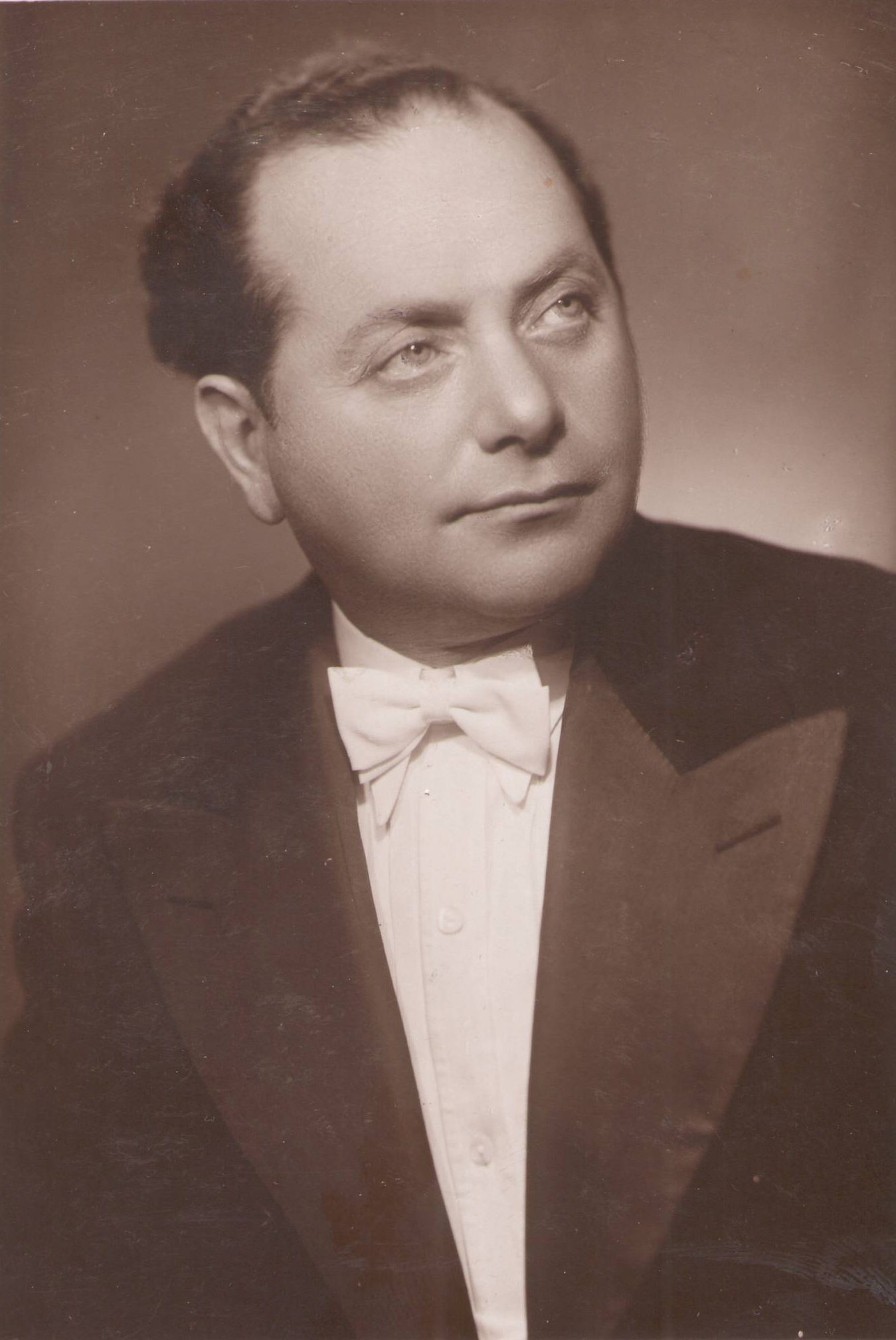 Grigory Sandler - russian choir-master